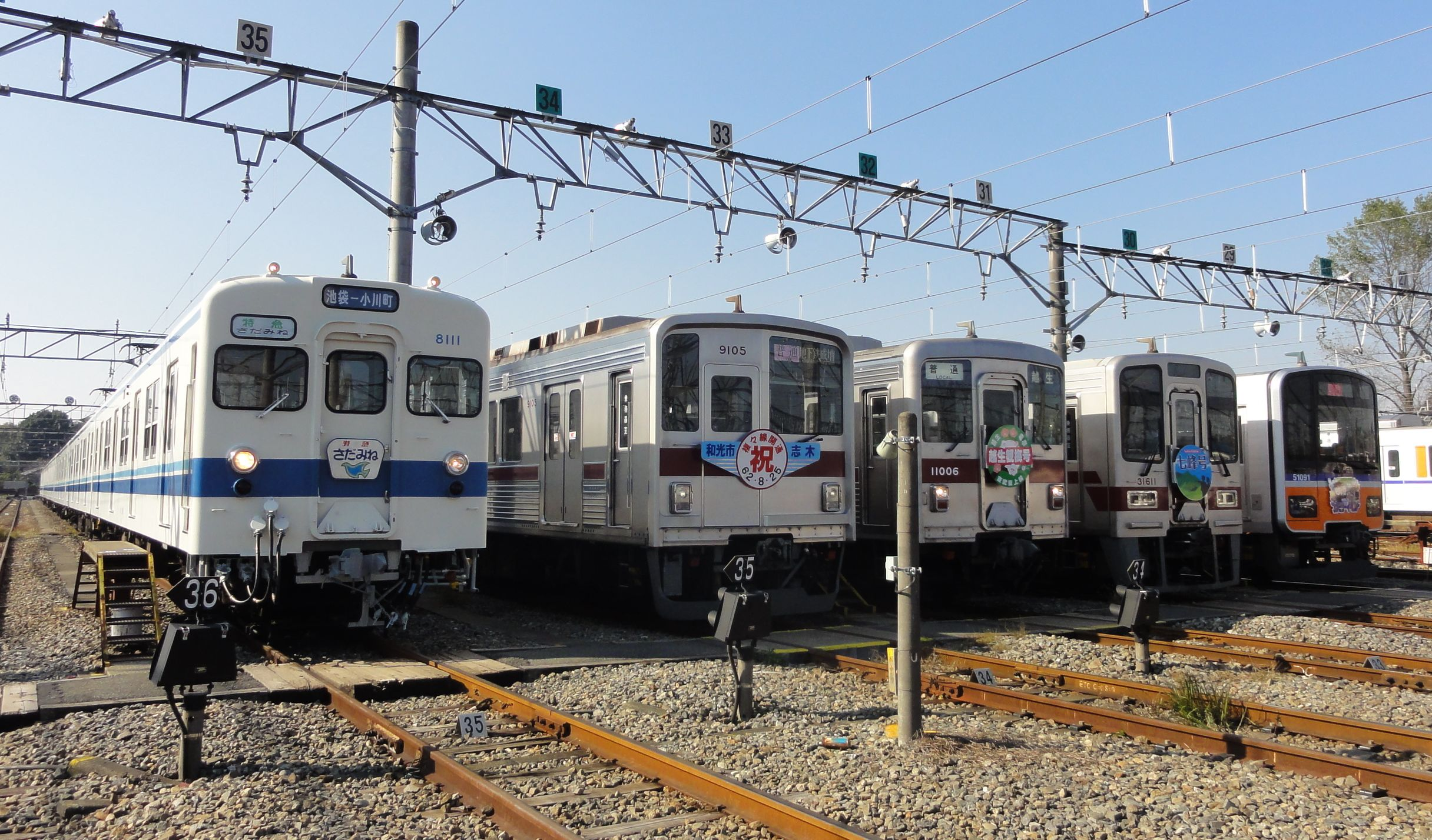 Tobu 8000 series EMU set 8111 at Shinrinkoen Depot Open day